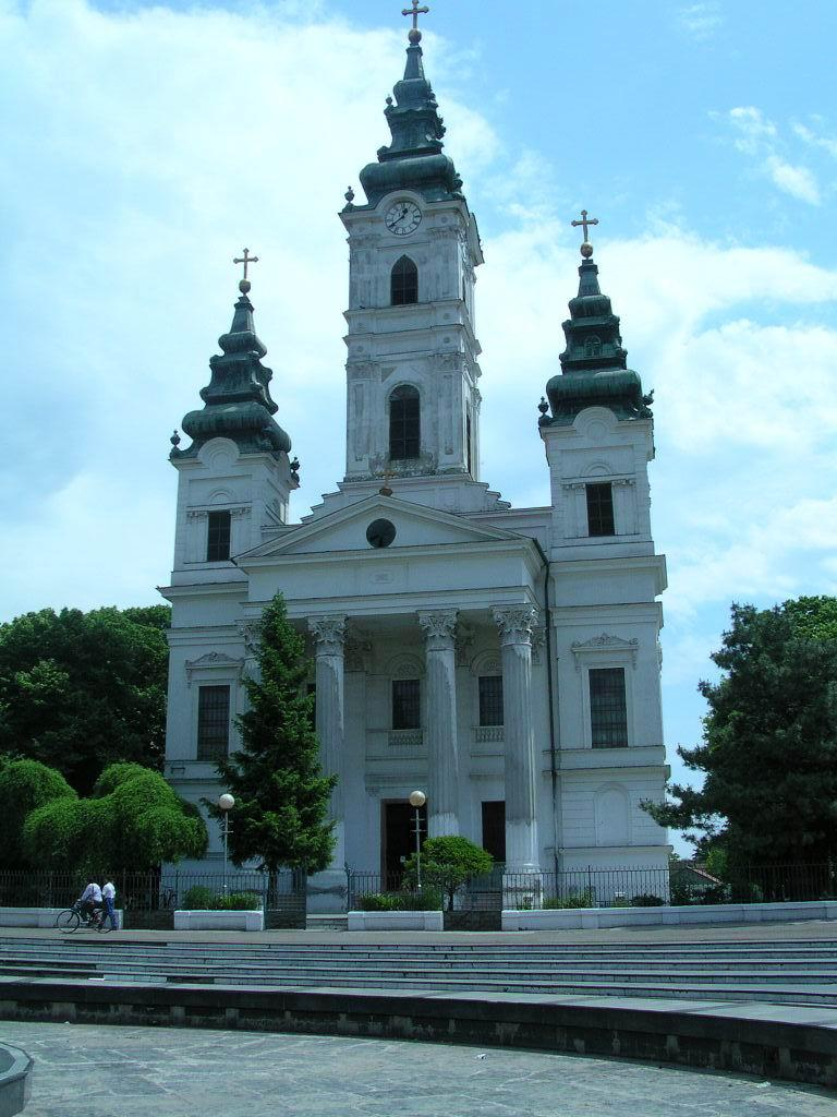 Serbian Orthodox Church.